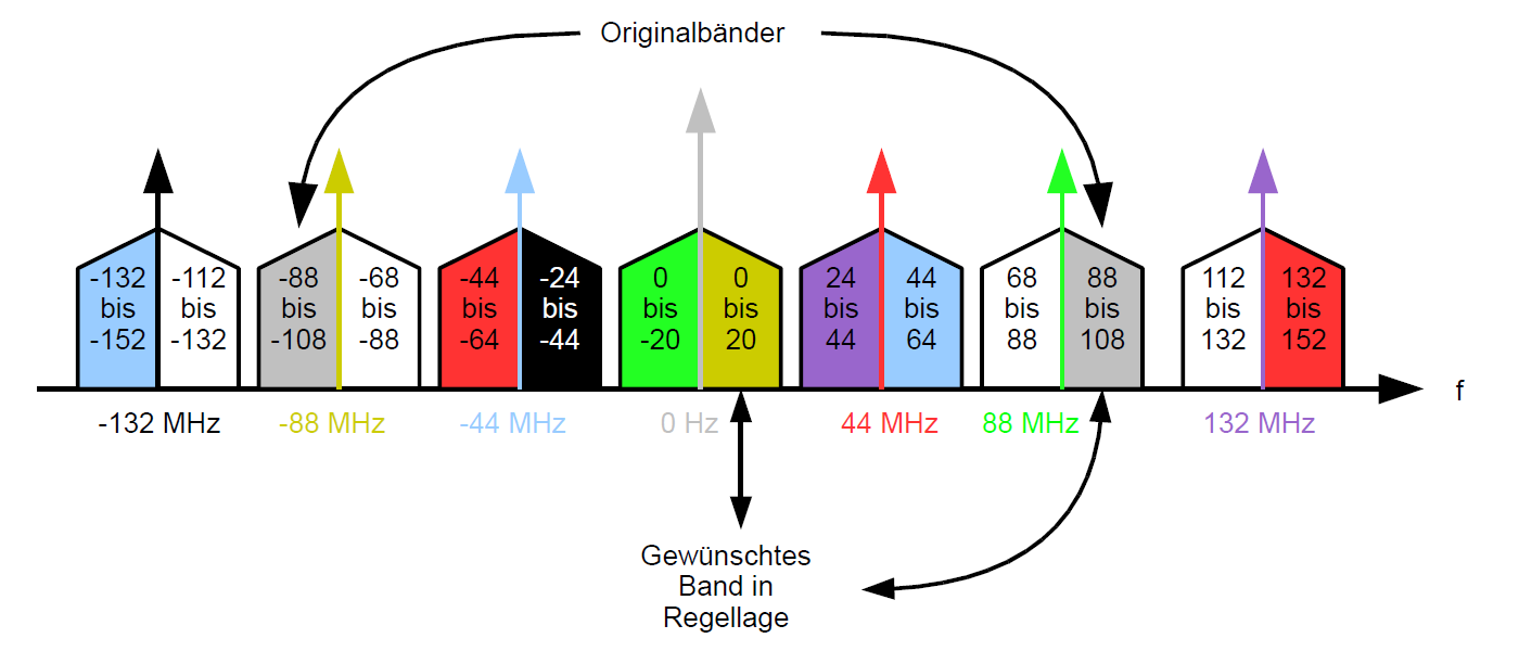 Example for bandpasssubsampling: UKW-radio (88..108 MHz) m = 4 is choosen